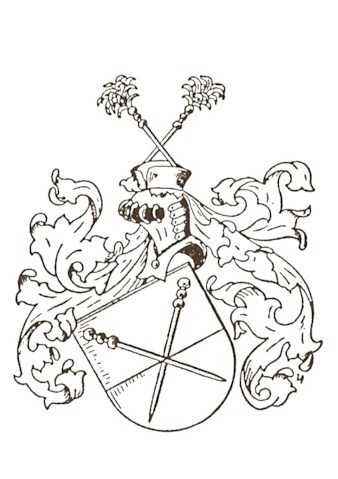 Coat of Arms of the german family "von Römer" (Meißen), hessische Linie